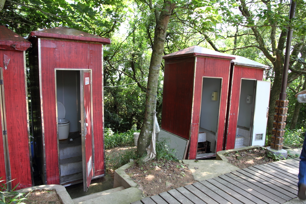 portable potty on top of a mountain in China